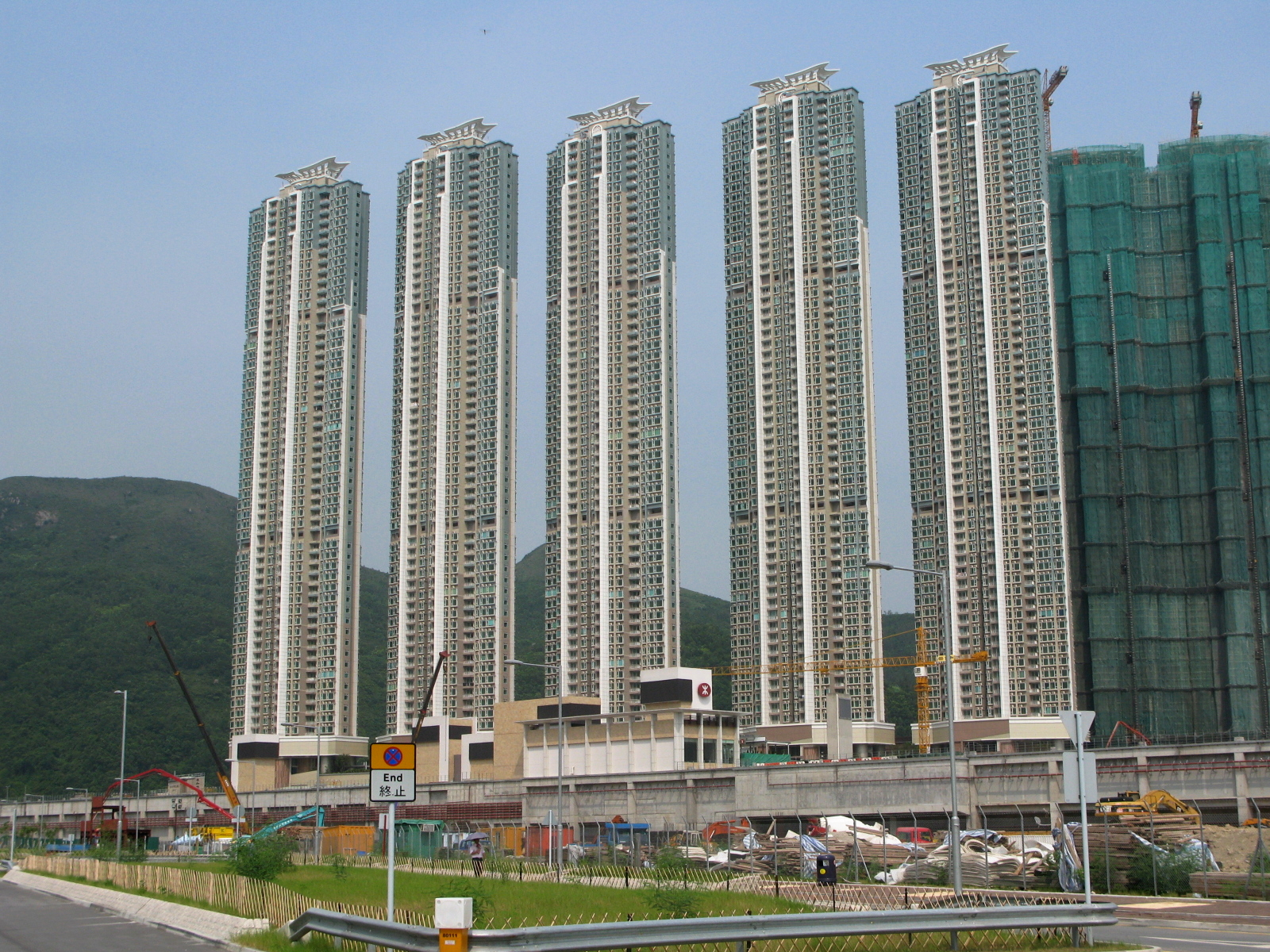 HK LOHAS Park The Capital 日出康城 首都 (香港)